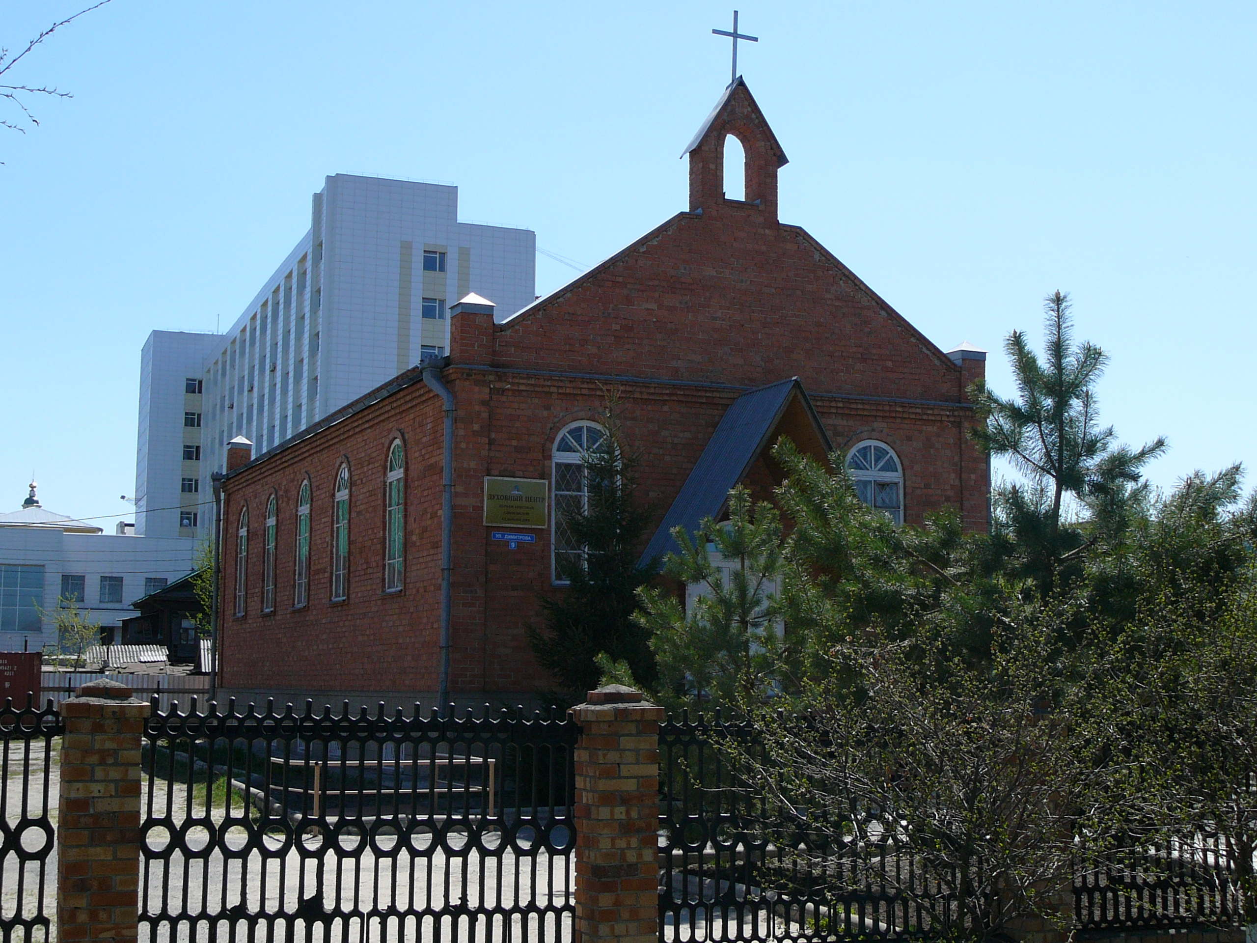 Spiritual Center Seventh Day Adventist (Tyumen, st. Dimitrova, 9)